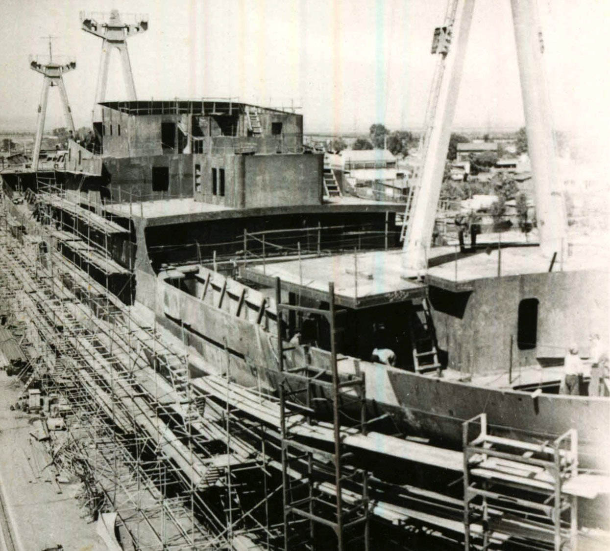 Galaţi shipyard